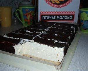 "Bird's milk" cake produced in Moscow